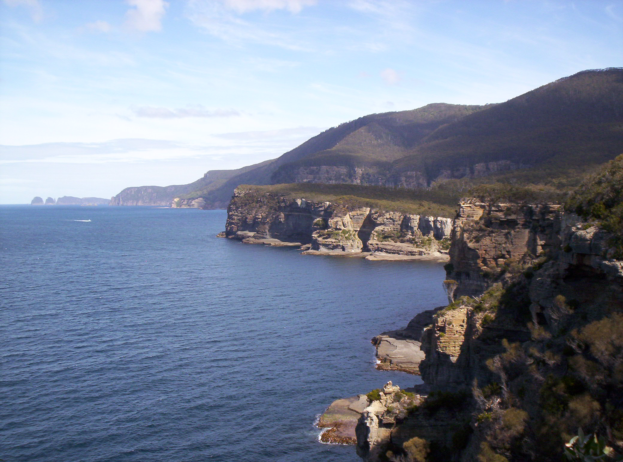 Coastal cliffs of the Tasman Peninsula, Tasmania, Australia. Taken from near the "Devil's Kitchen".